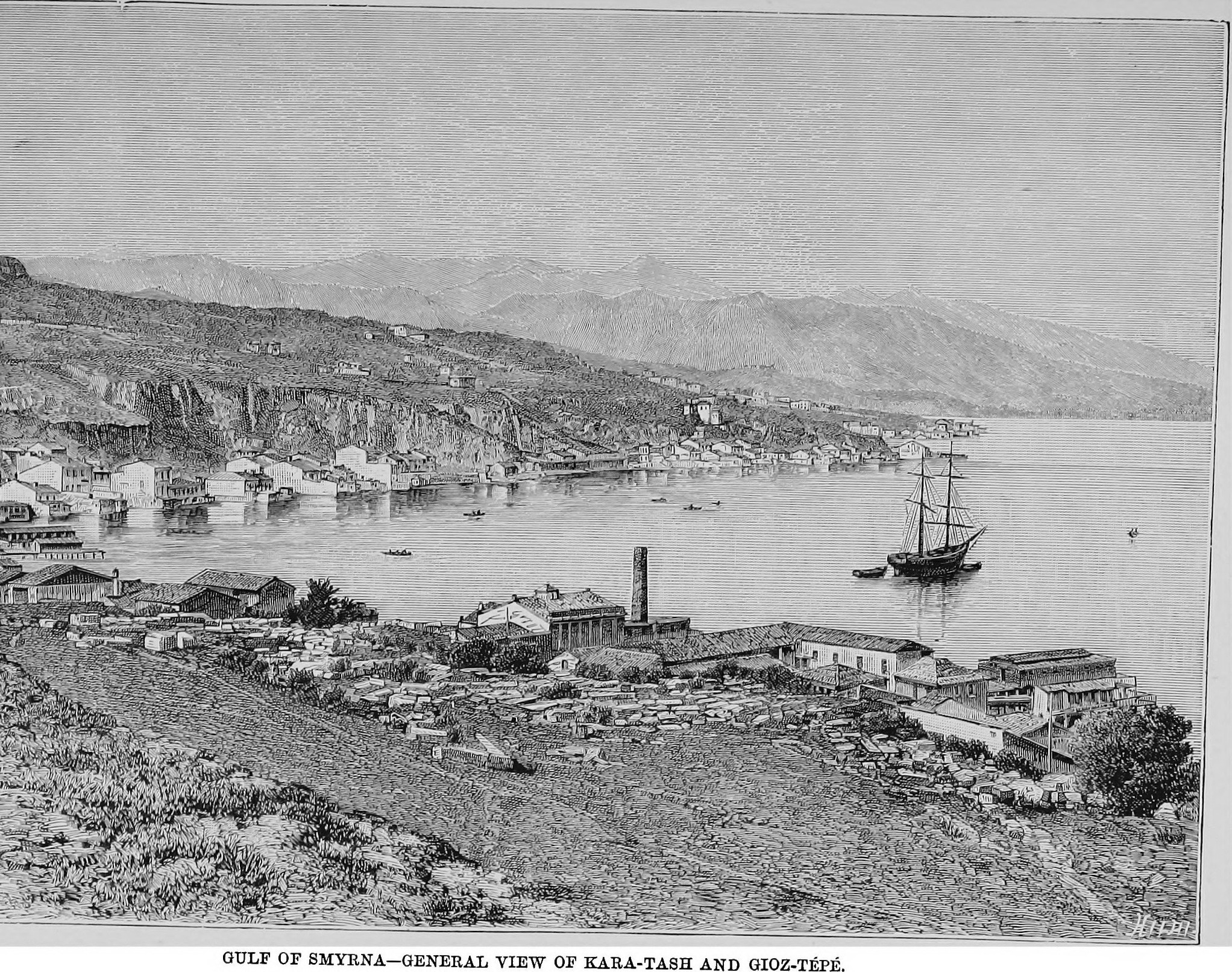 Ismir Karataş and Göztepe Identifier: cu31924095158964 Title: The universal geography : the earth and its inhabitants Year: 1876 (1870s) Authors: Reclus, Elisée, 1830-1905 Ravenstein, Ernest George, 1834-1913 Keane, A. H. (Augustus Henry), 1833-1912 Subjects: Geography Publisher: London : J.S. Virtue & Co., Ltd.